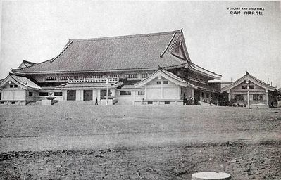 Jimmu temple（神武殿）. From post card of Manchukuo before 1945